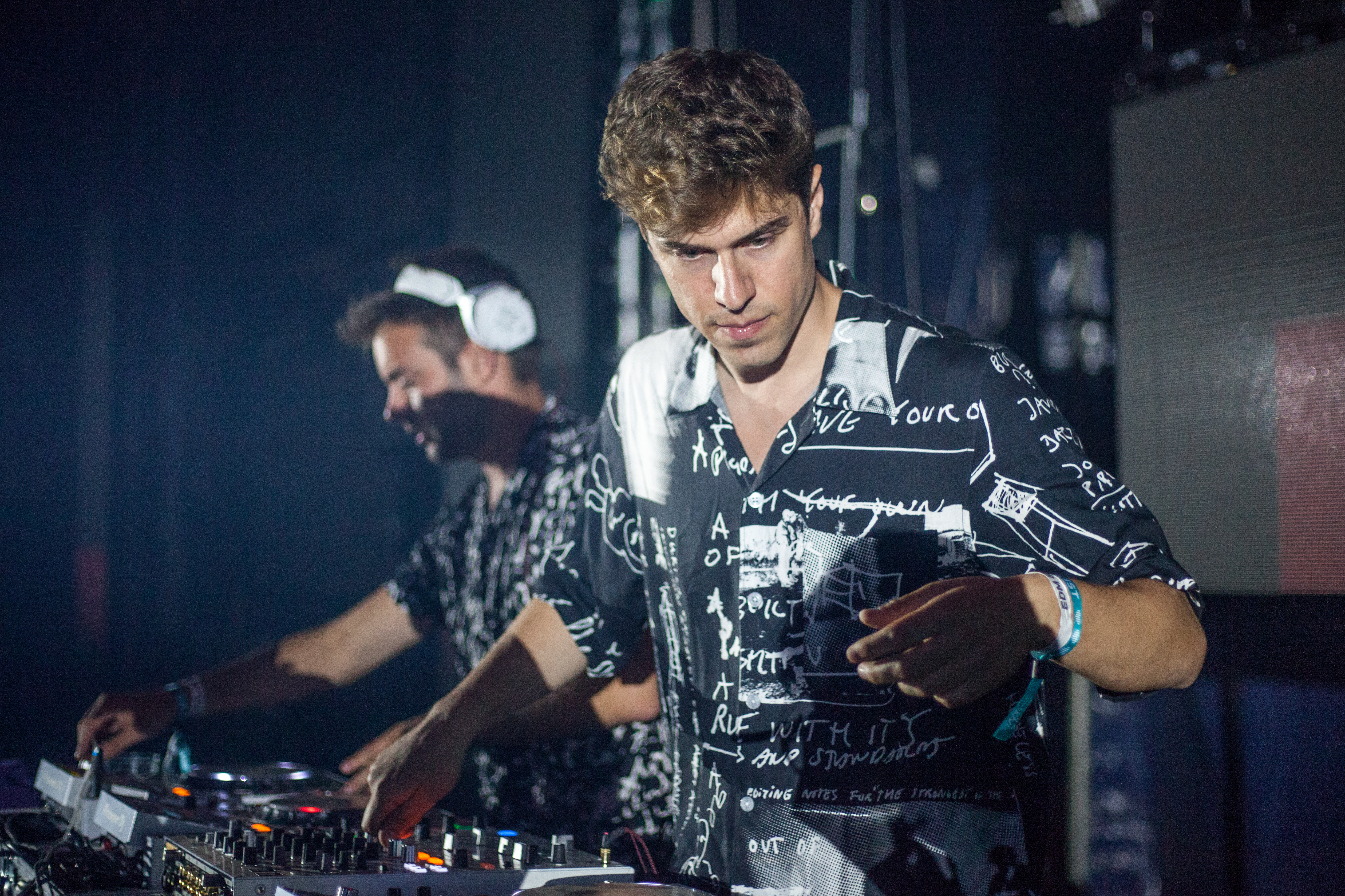 Italian musical duo Merk & Kremont performing at electronic music festival Beats for Love 2019 (Ostrava, Czechia) on 6 July 2019